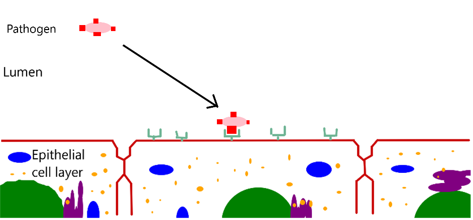 Bacteria adhere to specific proteins on host cell